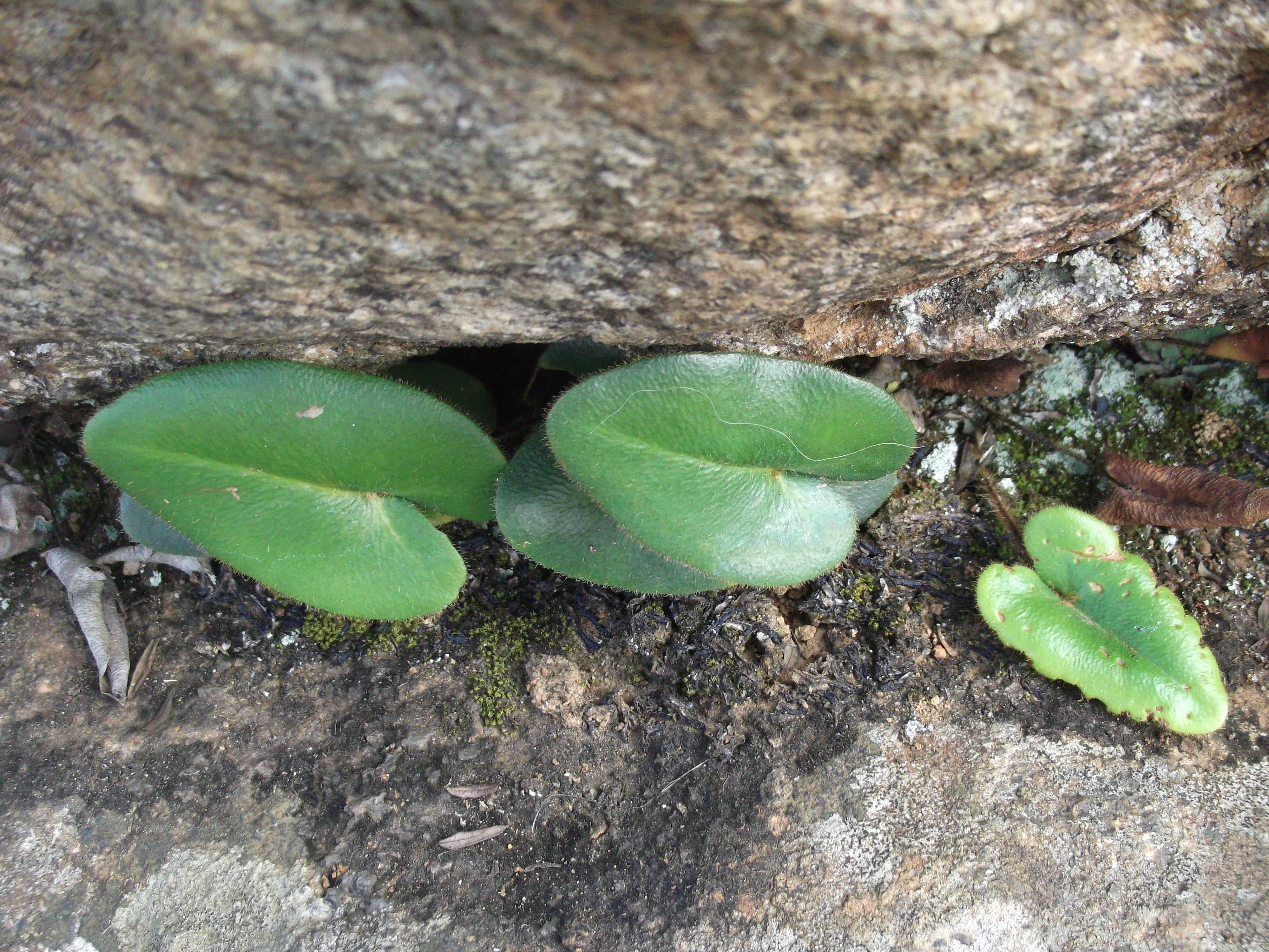 Grow of rock crevices,fertile frounds few,erect,hastate onlarge spike.